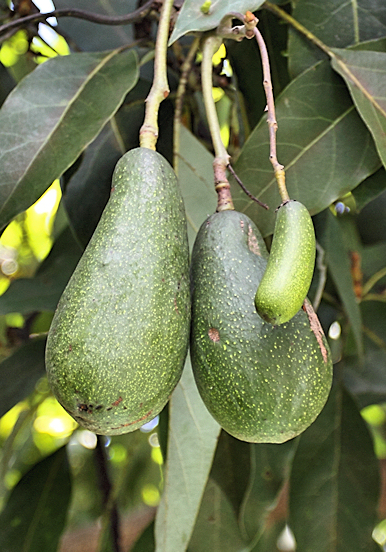 A seedless avocado, or cuke, growing next to two regular avocados. Location: San Pablo Huitzo, Oaxaca, Mexico.